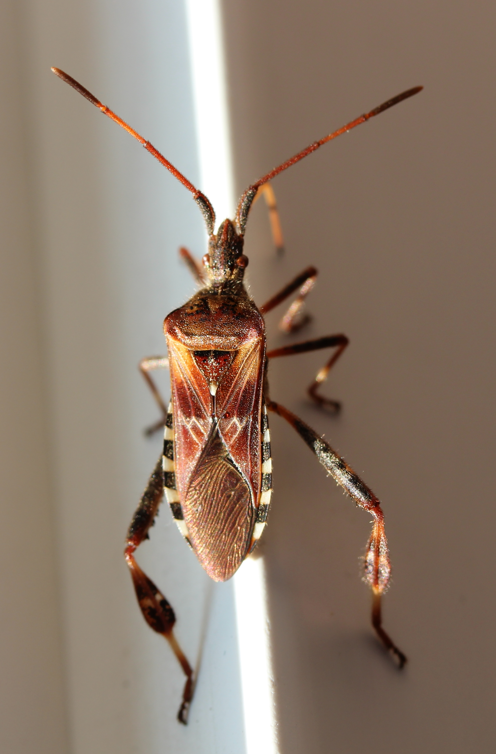 Leptoglossus occidentalis, Western conifer seed bug